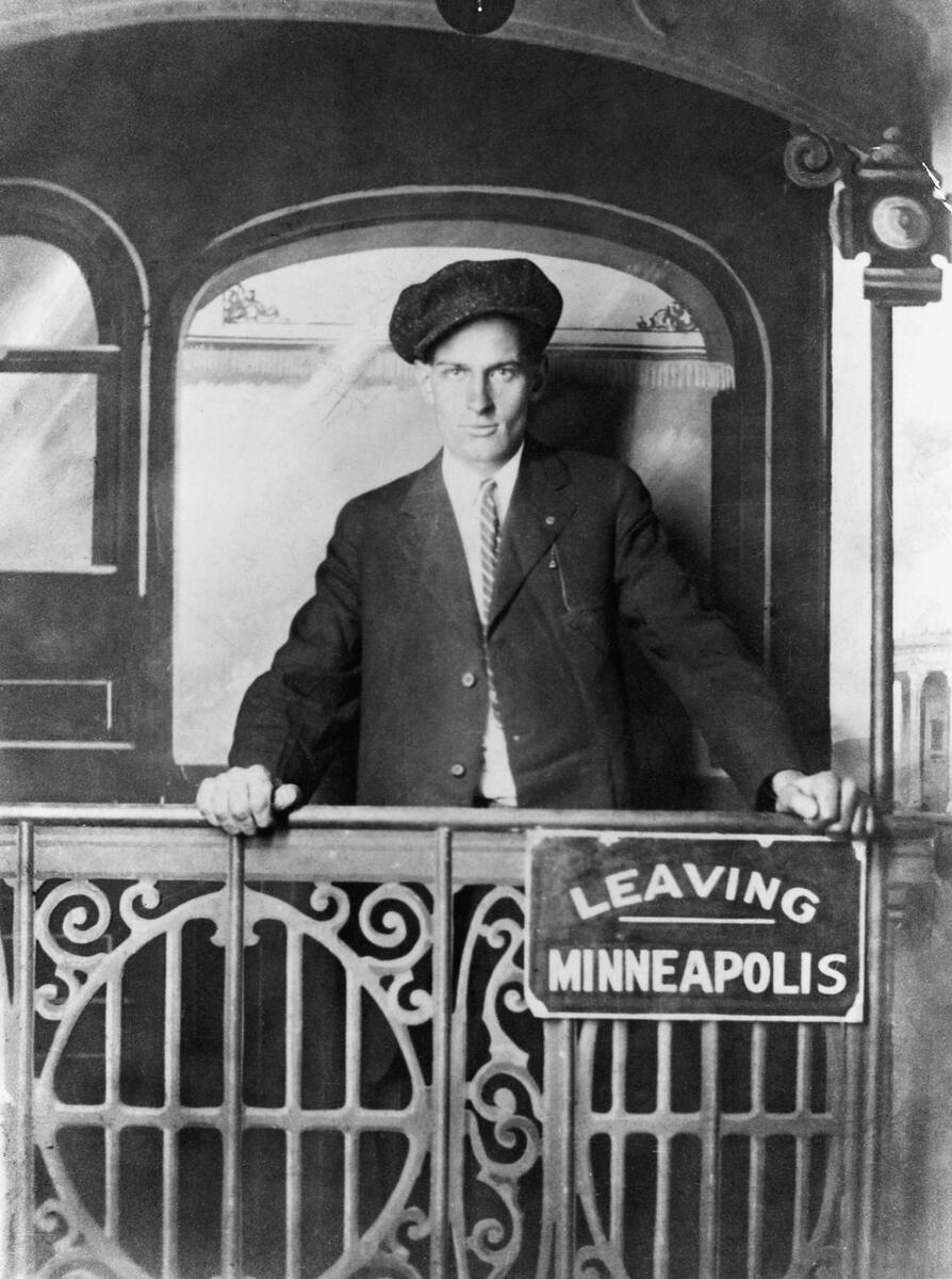 Arthur Evans, labour organizer, on train observation platform, USA.